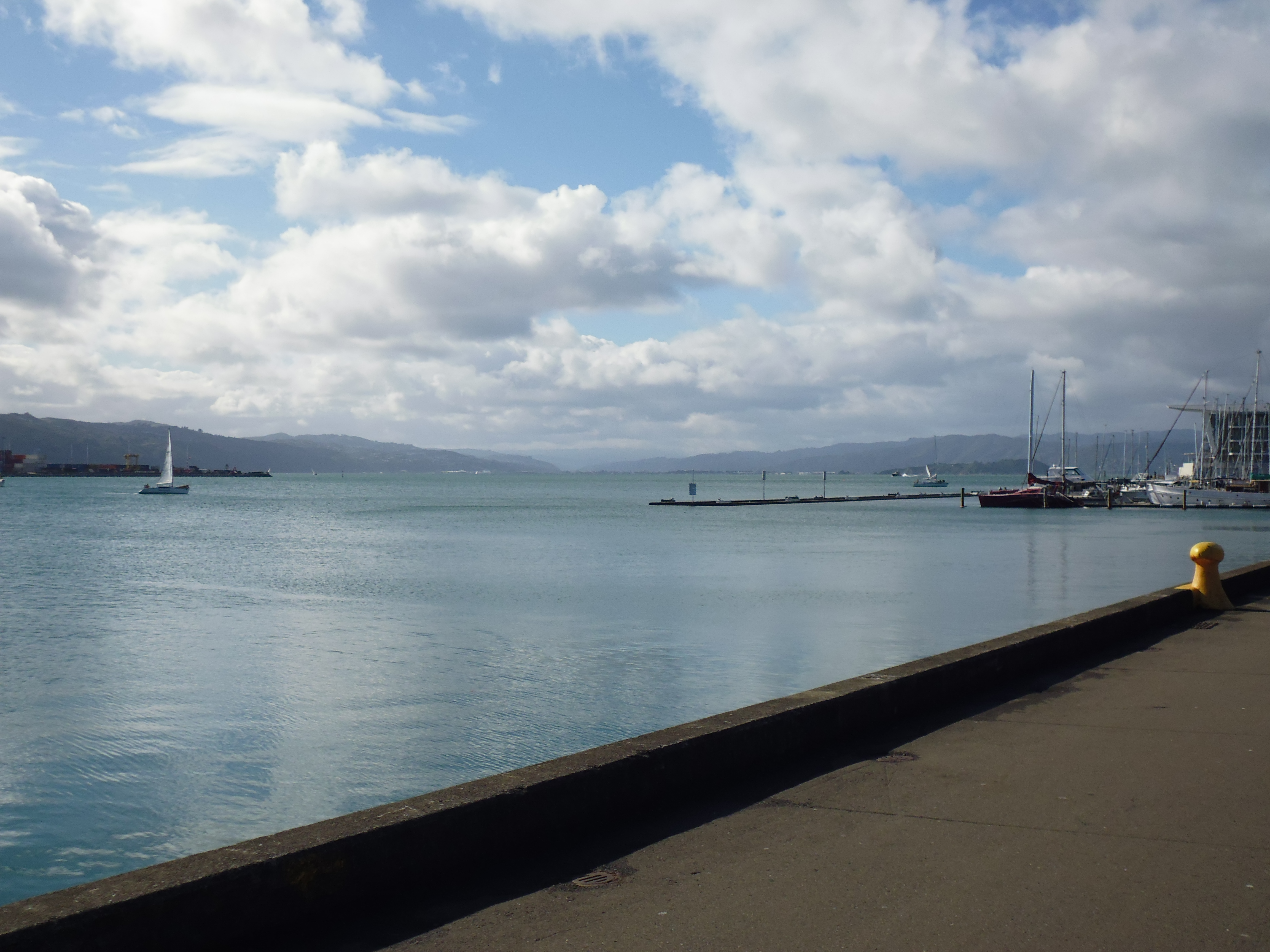 A view across Wellington Harbour (Te Whanganui-a-Tara) looking towards the Hutt Valley. The photo was taken from next to Te Papa.